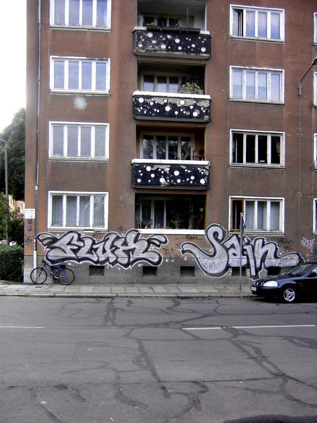 streetbombings in leipzig, germany